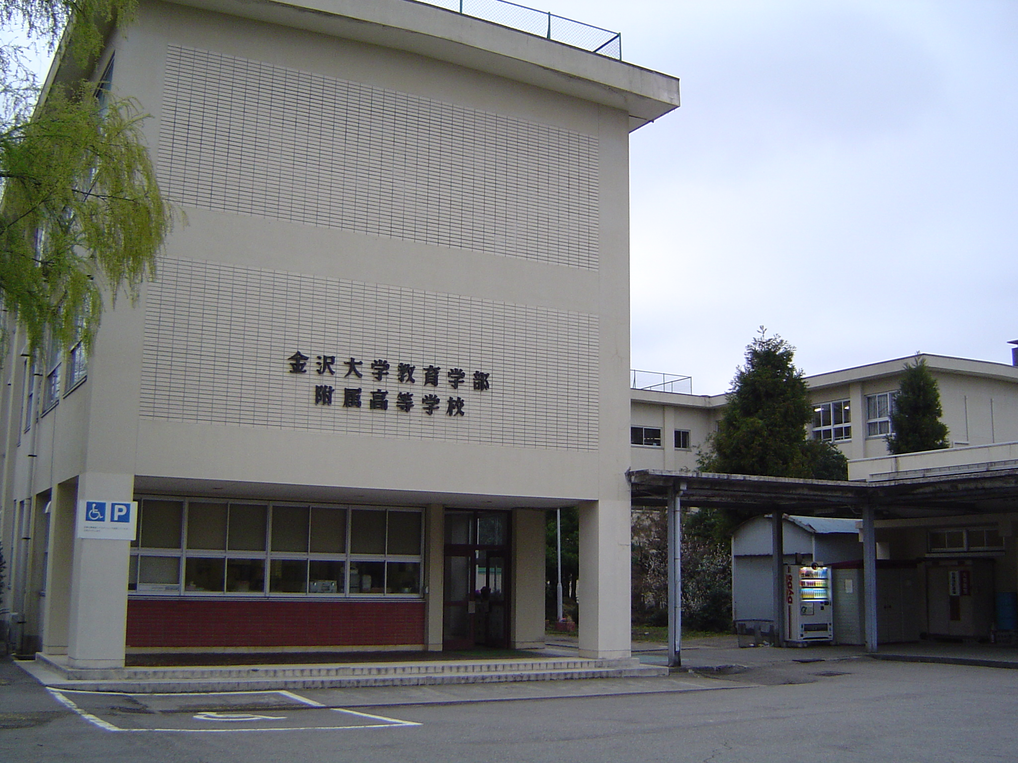 This is the school building before repair work is performed.（Kanazawa University High School）